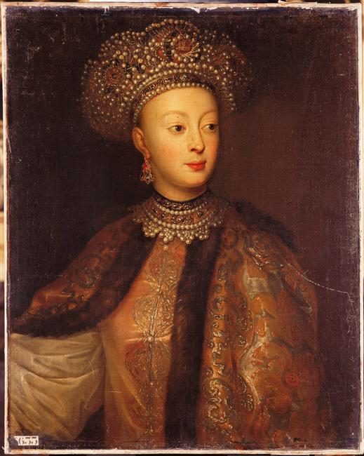 Portrait of Wife of ambassador Matveev